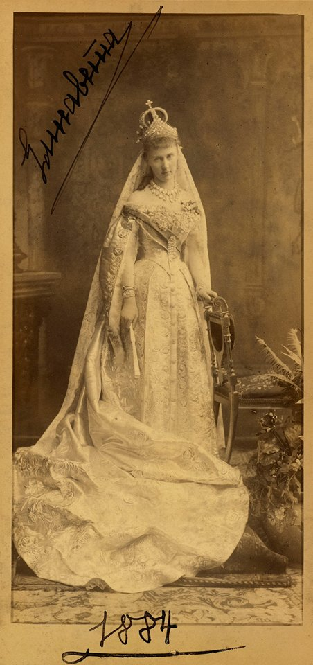 Grand Duchess Elisabeth Mavrikievna in her wedding dress, wearing the Russian Nuptial Crown and Russian Nuptial Tiara. April 27, 1884.